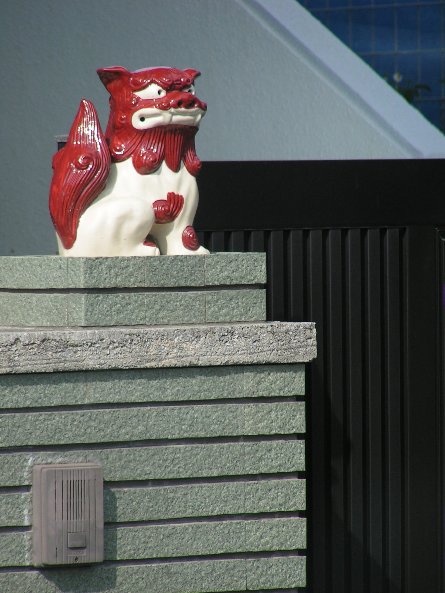 A shisa, or lion-headed dog. In Okinawan tradition these figures act in pairs to guard a home. This closed mouthed shisa is considered the more powerful of the two. It guards against mischievous spirits. An open mouthed shisa holds the spirits of men when they enter a home. Men's spirits remain in protective custody above the roof until they leave the building. Then the shisa returns the man's spirit. Shisa allow women's spirits to pass because local custom considers women spiritually pure.